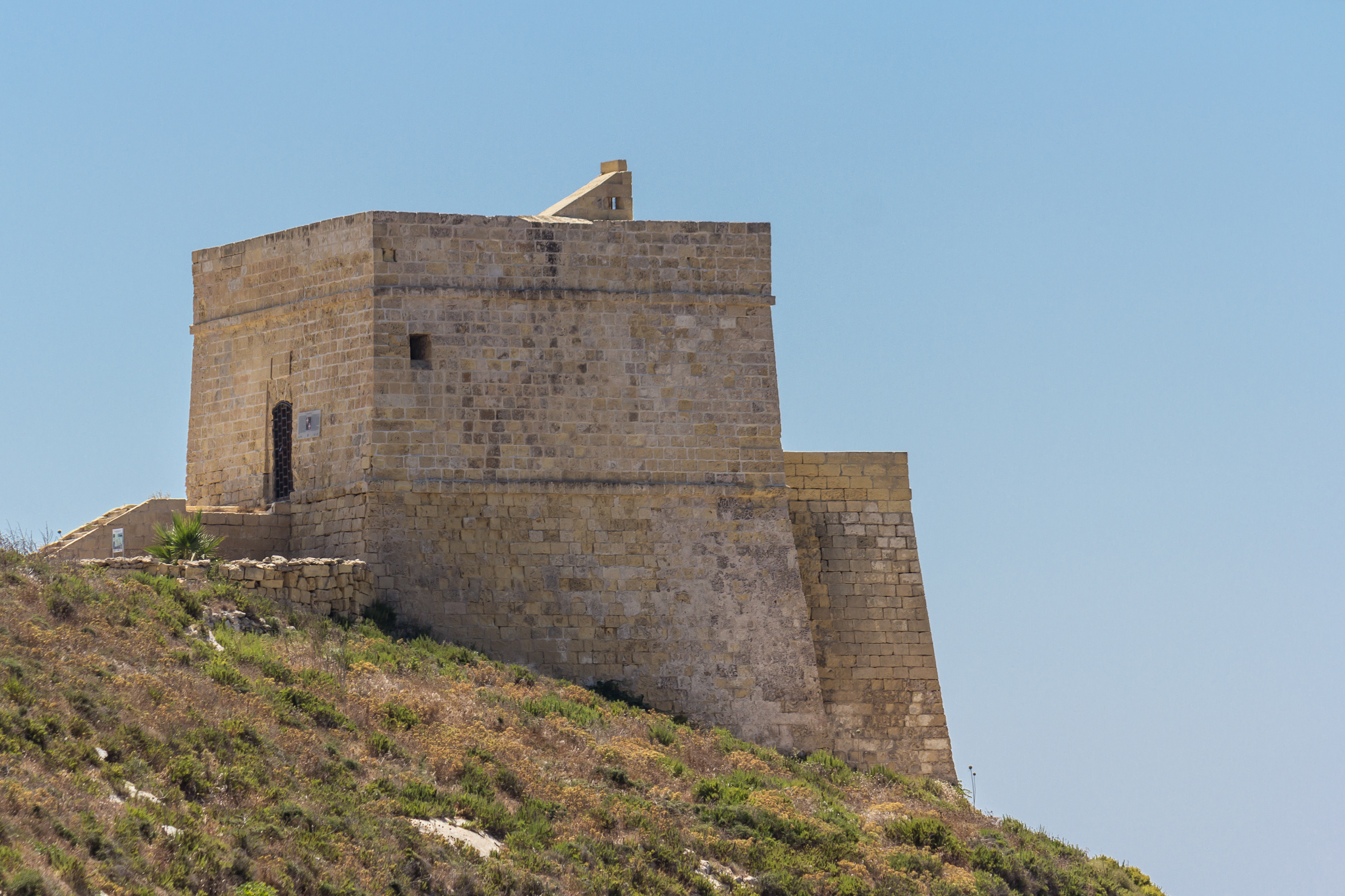 This media is about Maltese cultural property with inventory number 00036.